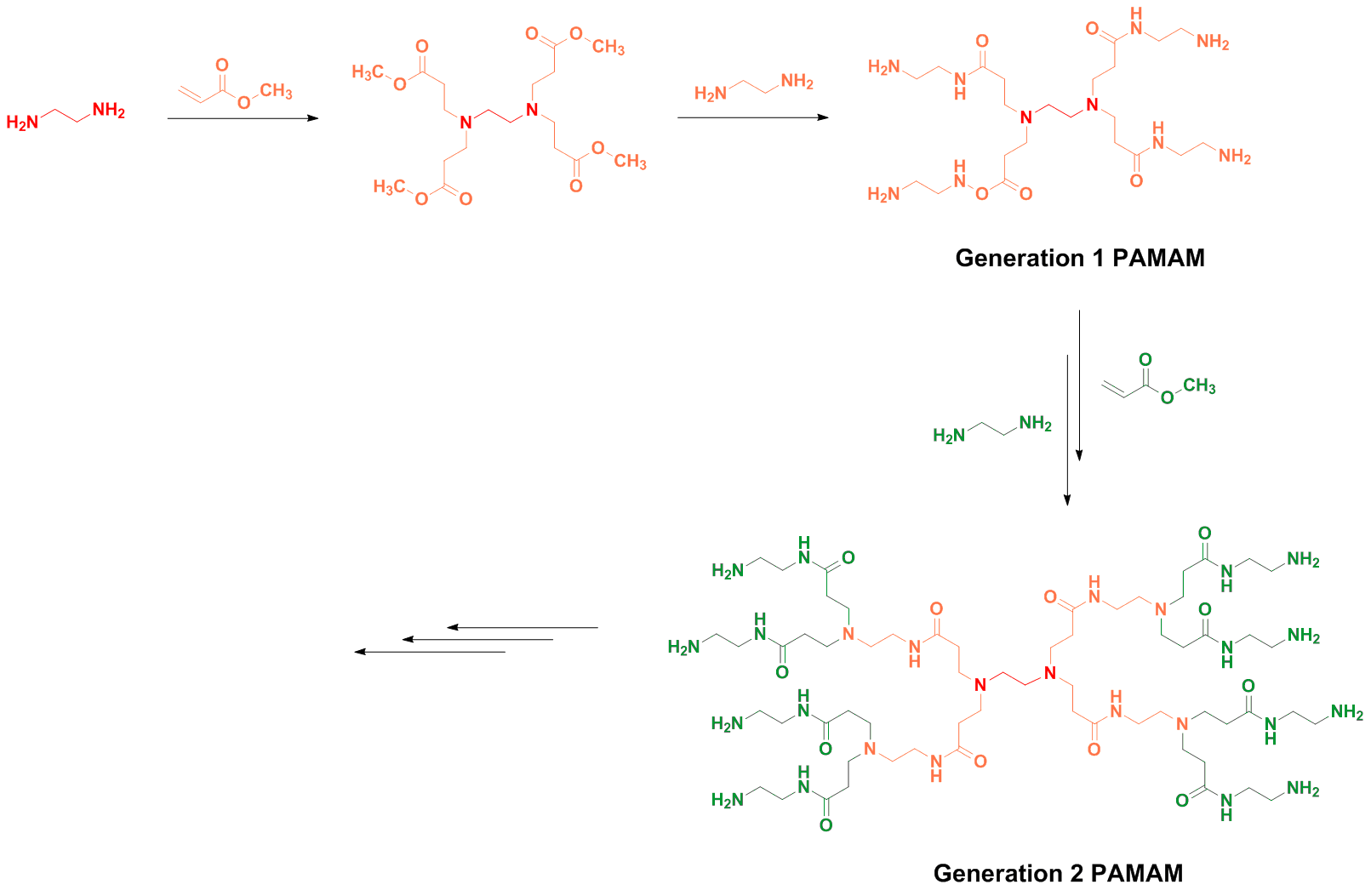 Depiction of the divergent synthetic scheme for PAMAM dendrimers, color coded by generation number.